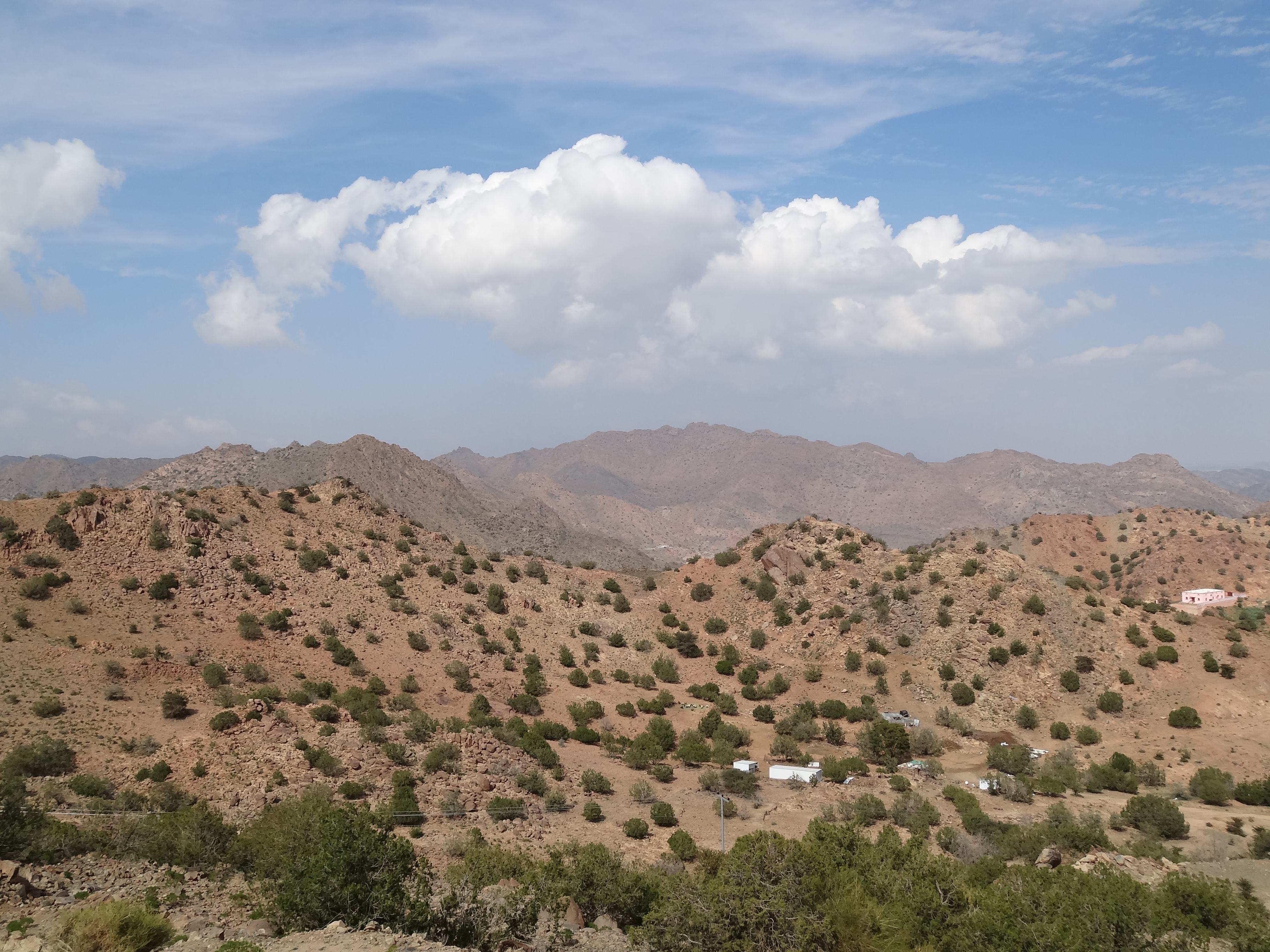 Taif Mountains